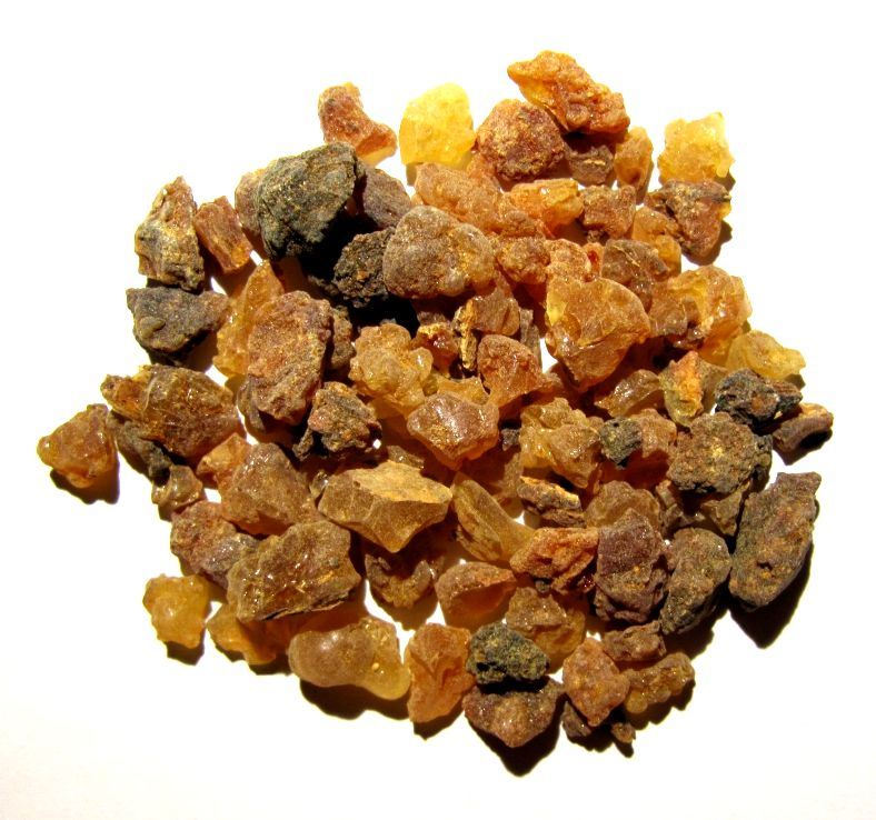 Myrrh (Origin: Oman, 2009)